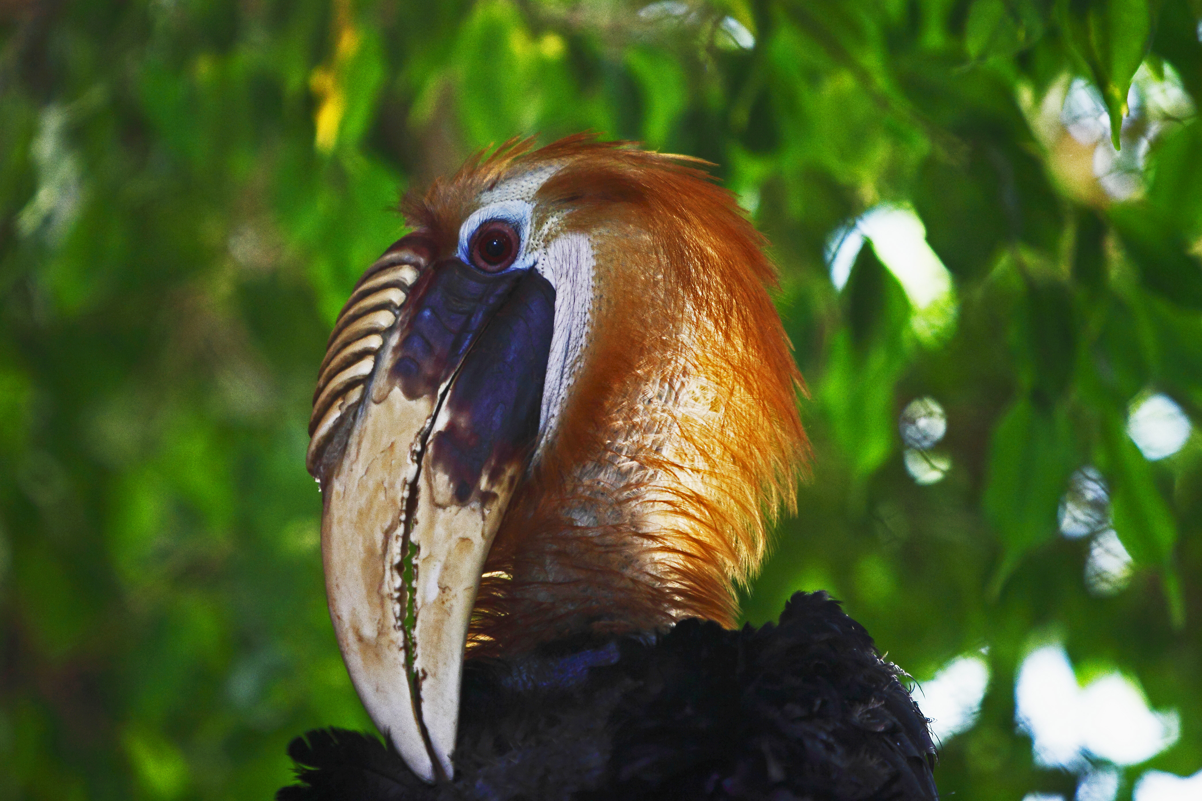 Papuan Hornbill (also known as Blyth's Hornbill) in the lobby of the Glen Oak Zoo in Peoria, Illinois, USA.